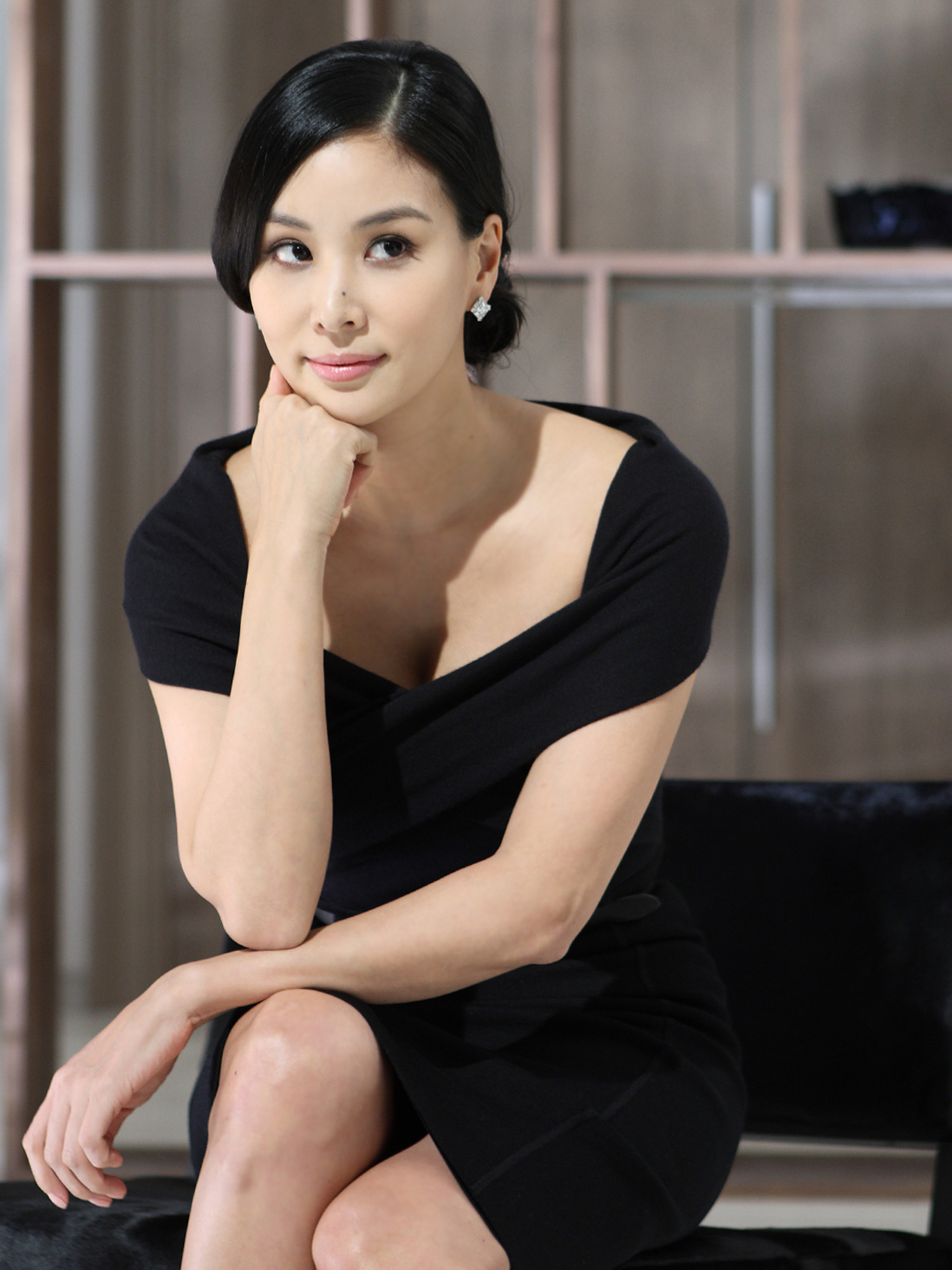 Ko So-young at LG Electronics